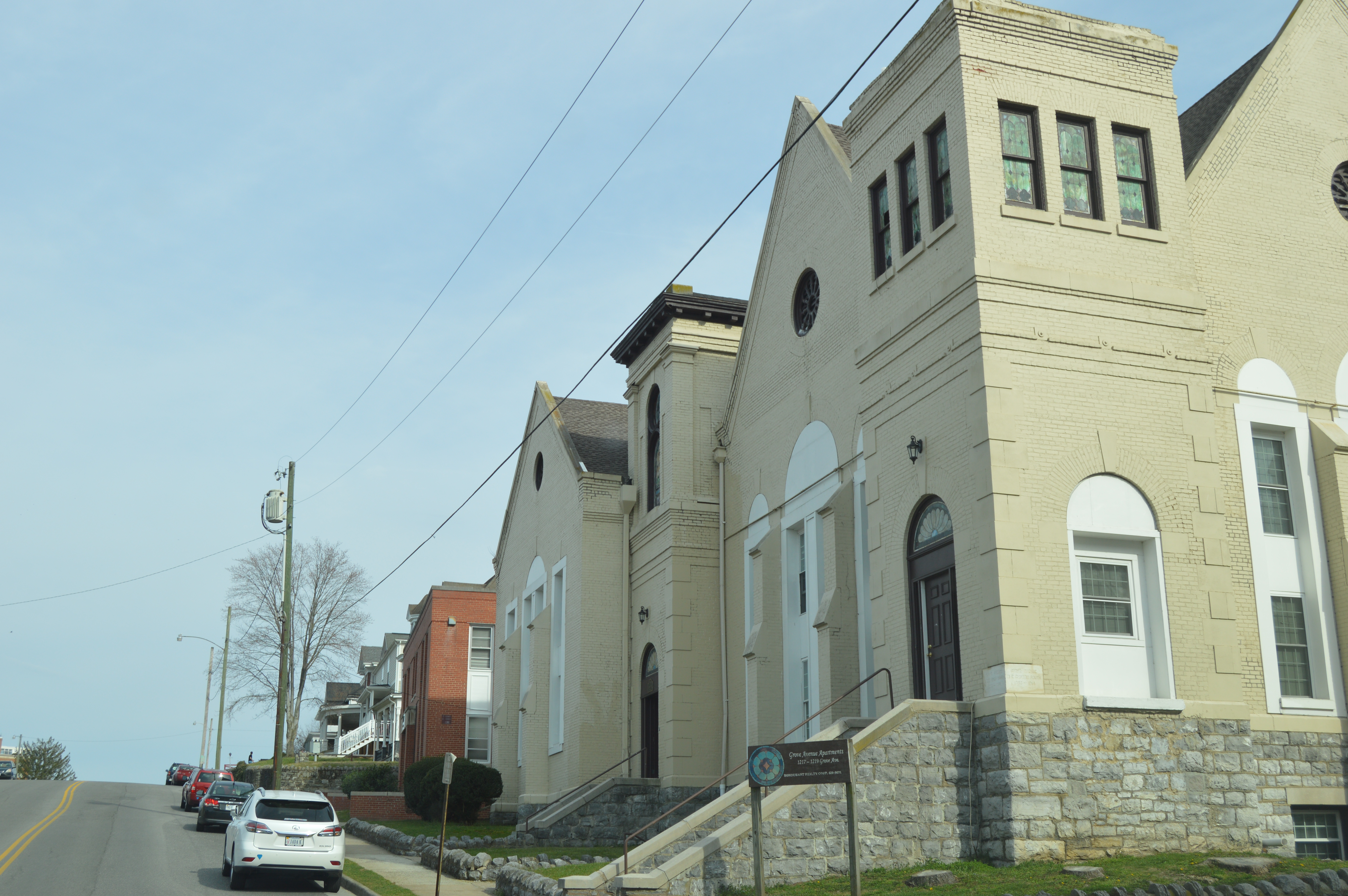 Buildings on the southern side of Grove Avenue, looking east from Third Avenue, in Radford, Virginia, United States. This block is part of the East Radford Historic District, a historic district that is listed on the National Register of Historic Places.